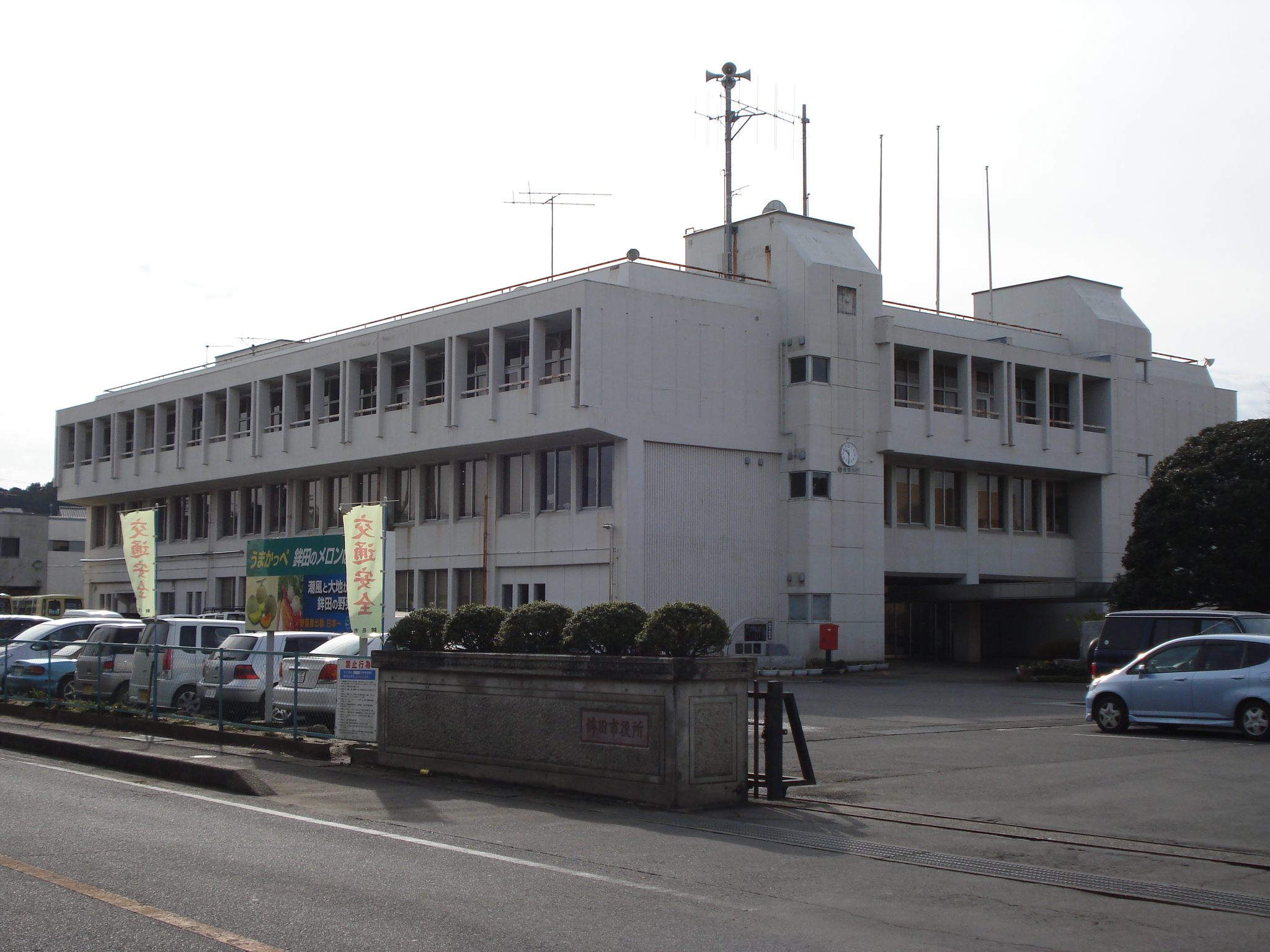 Hokota City Hall Main Building